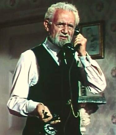 Ludwig Donath in Jolson Sings Again - trailer (cropped screenshot)